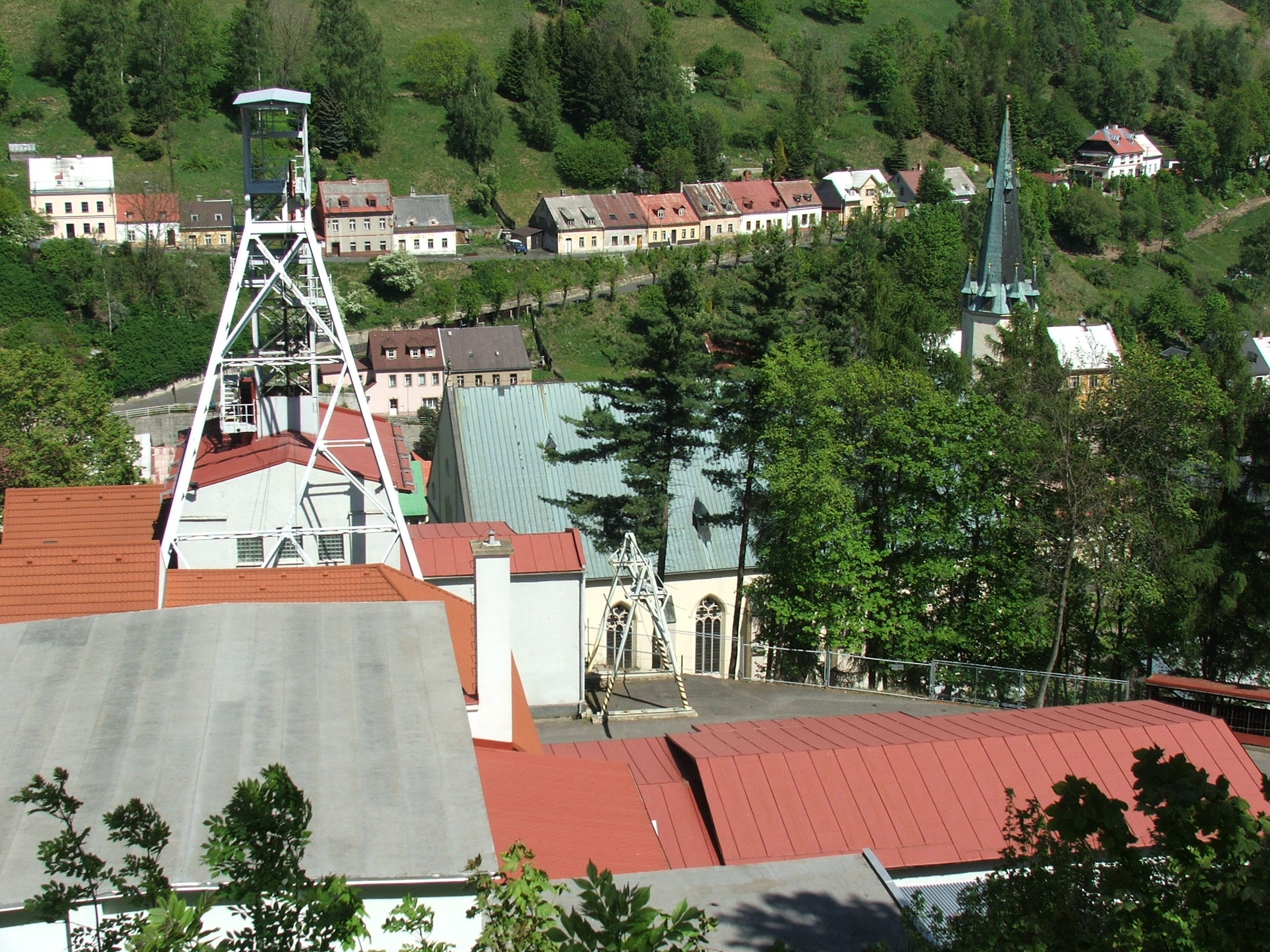 View from former camp Svornost - (Concord), communist labour camp in Czechoslovakia over Jáchymov, Czechia.